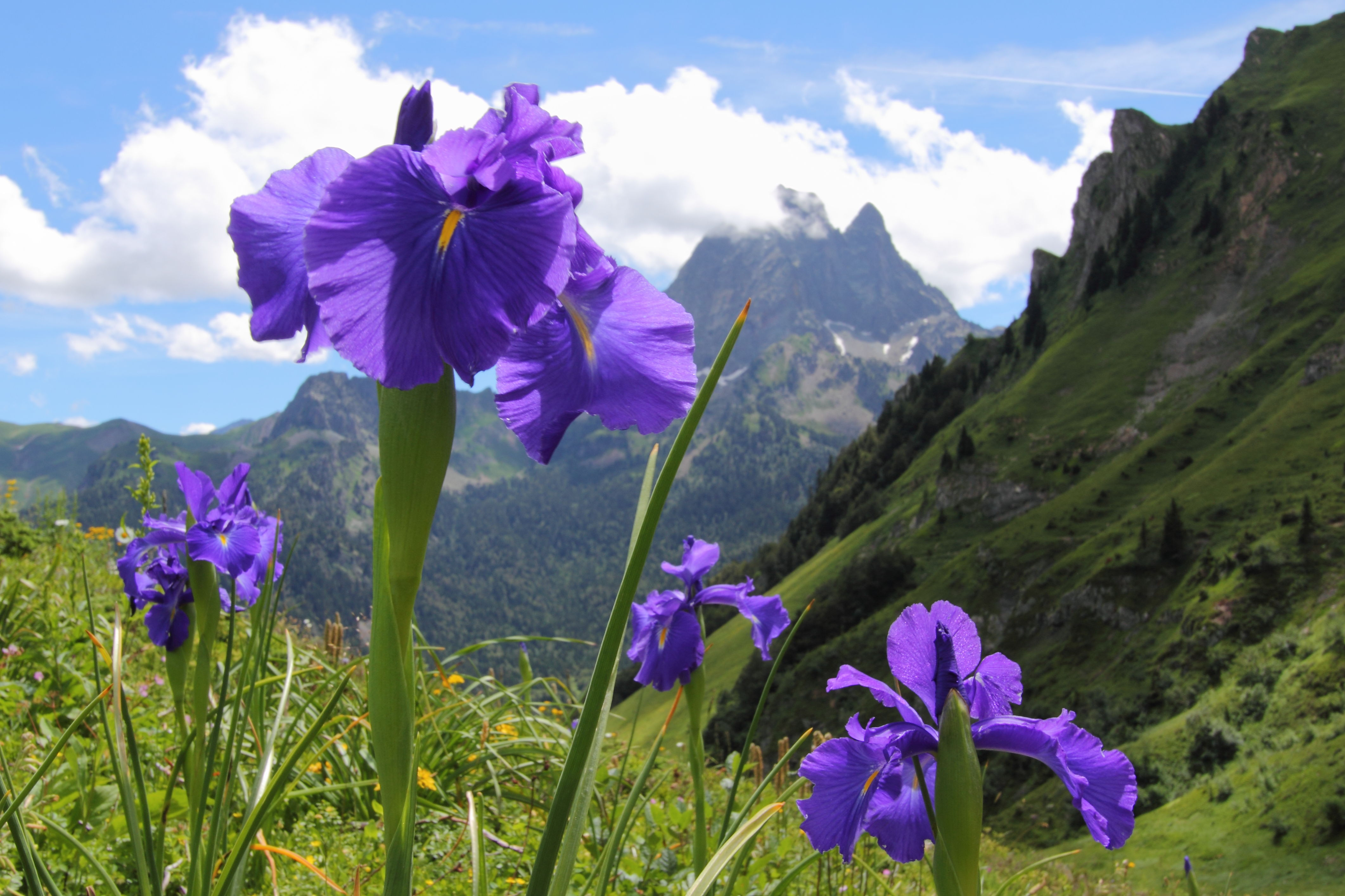 Iris latifolia from the Pyrénées (Aule lake).